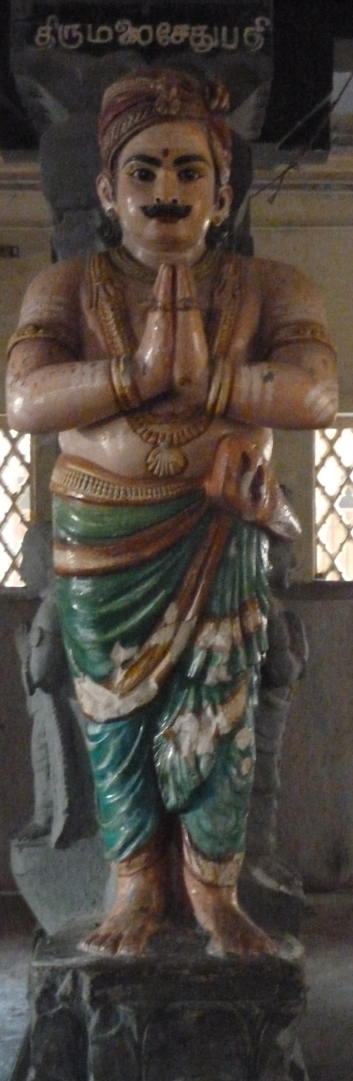 Statue of Thirumalai Sethupathi found in Rameswaram Shiva temple